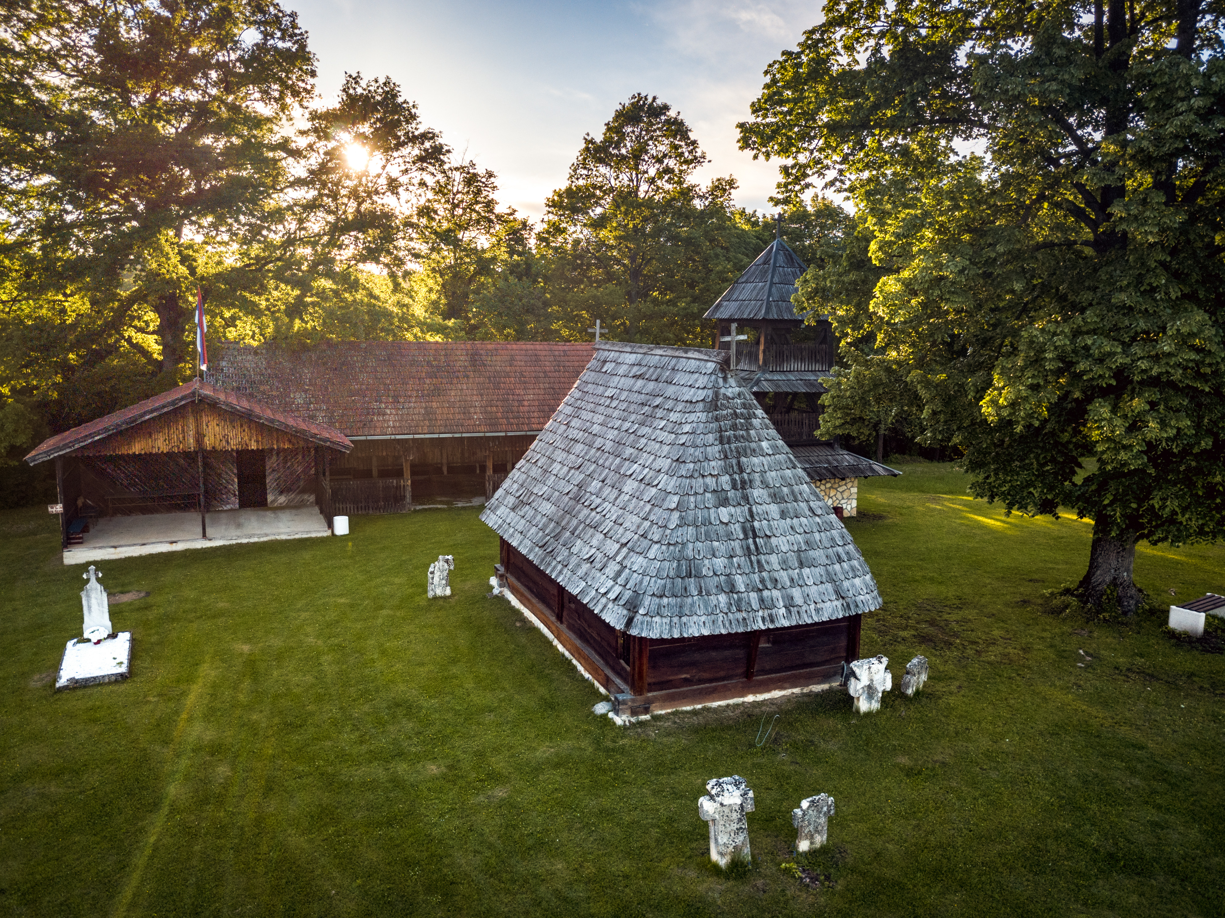 Romanovci